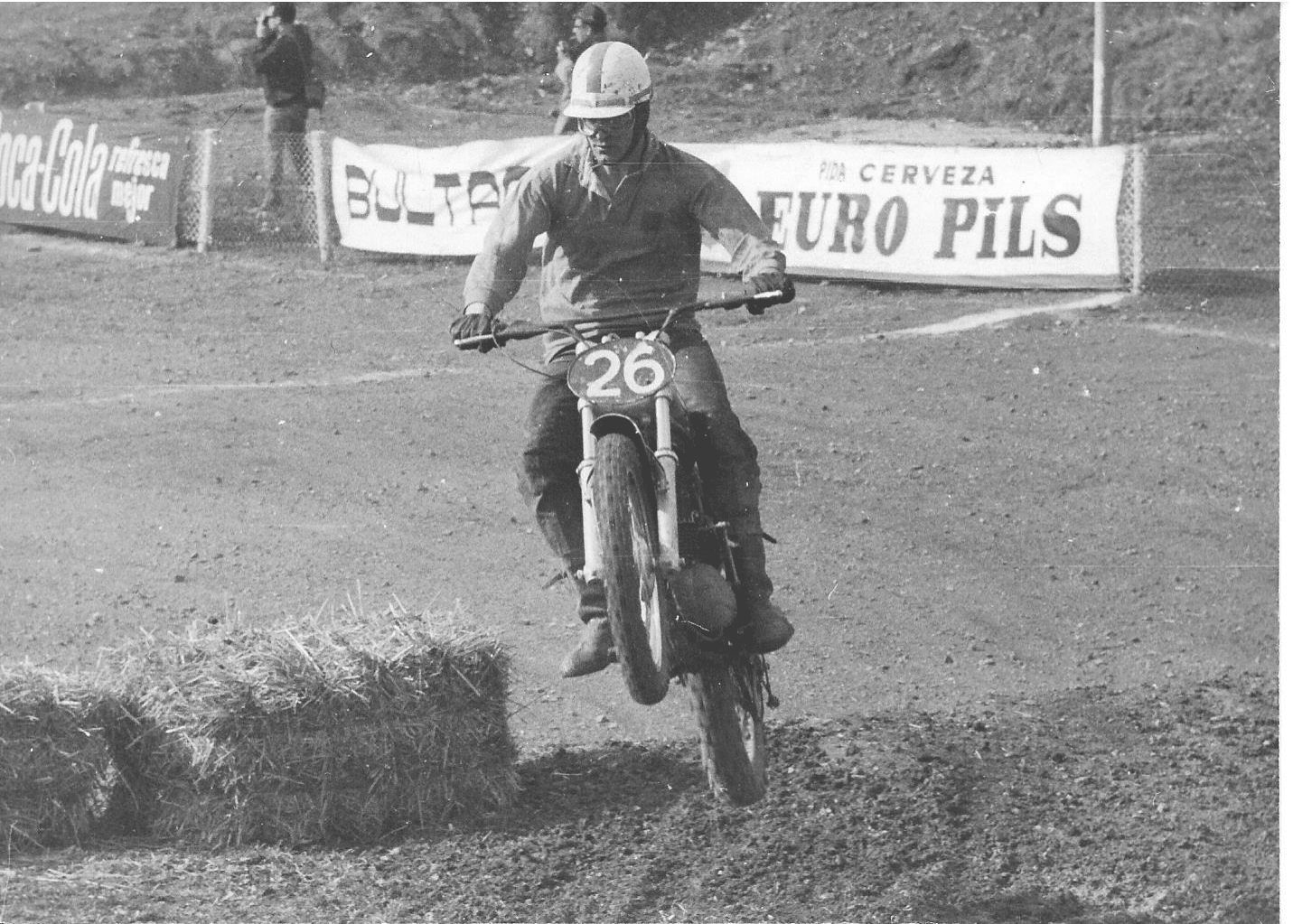 Oriol Puig Bultó on the Bultaco Sherpa S during a race of the 1964 Spanish Grand Prix of Motocross 250cc, held on April 5 at the Circuit de Santa Rosa, in Santa Coloma de Gramenet